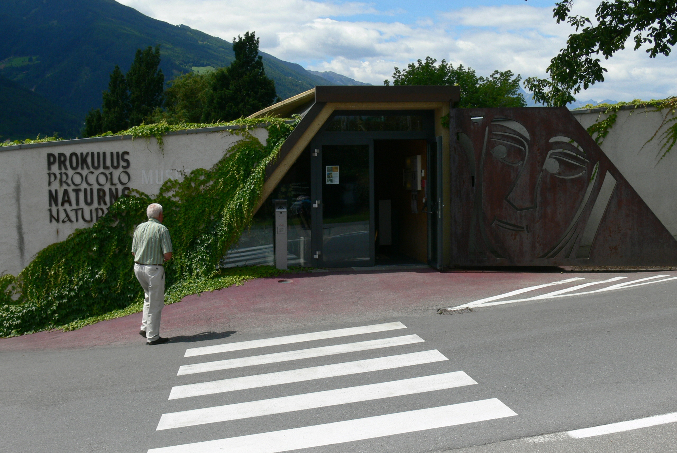 Naturns ( South Tyrol ). Saint Proculus museum: Entrance.